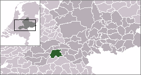 Locator map of Dutch municipalities in Gelderland (LocatieWestMaasEnWaal.png)